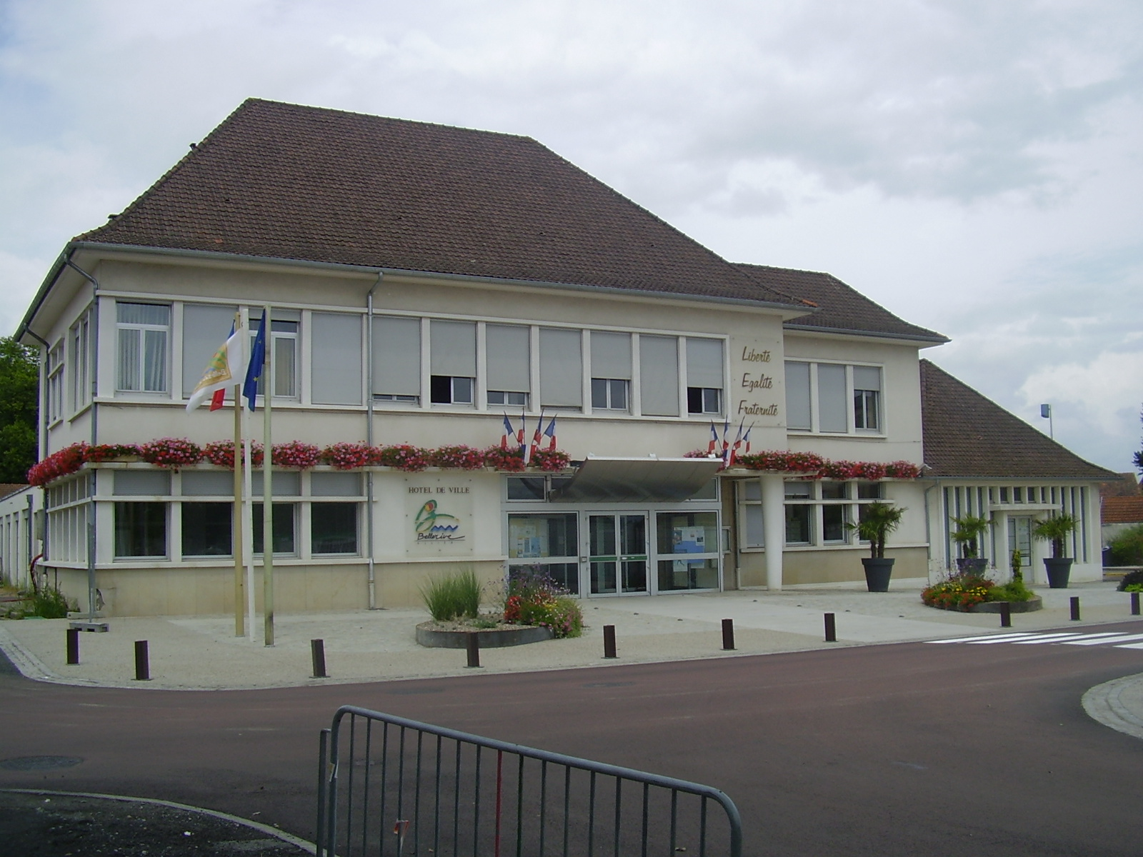 Townhall of Bellerive-sur-Allier, Allier, Auvergne, France. The D 984 crosses the downtown, here in a traffic calming with pedestrian crossing since 2010.